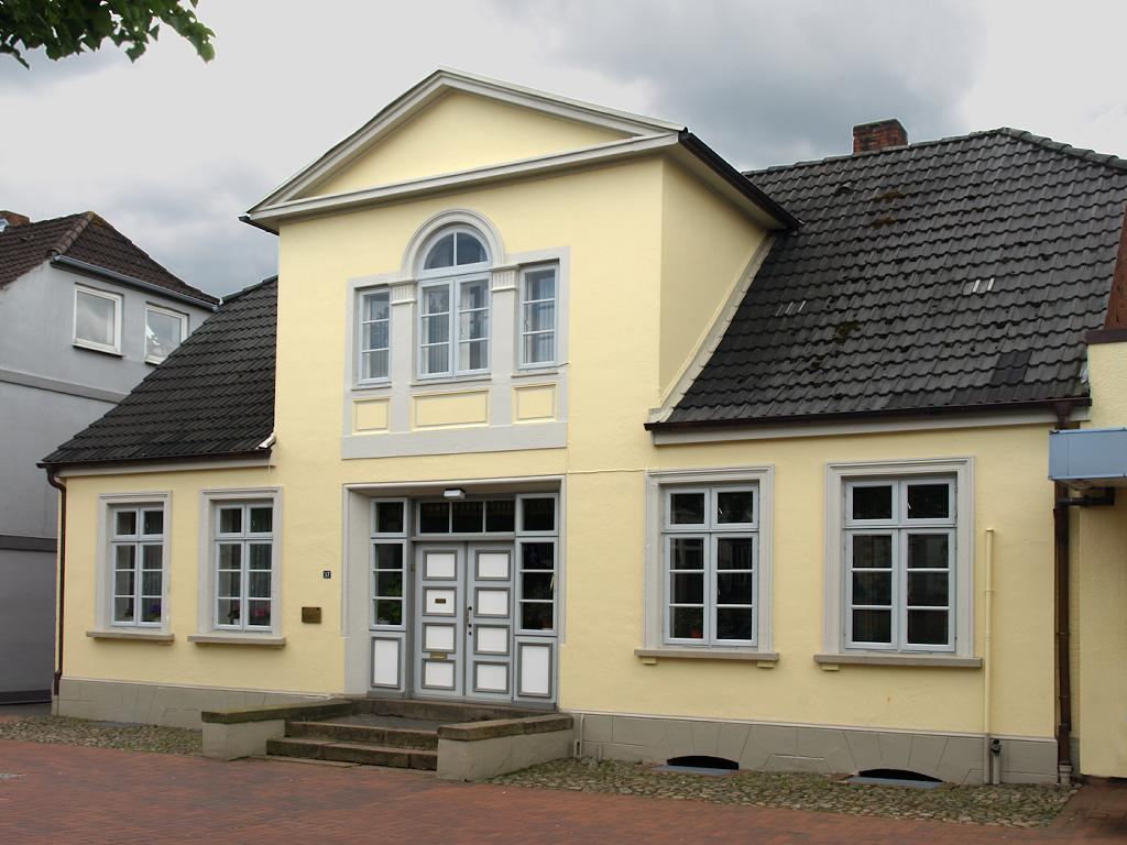 Hohenweststedt (Schleswig-Holstein, Germany),bailiwick of the abbey , photo 2009